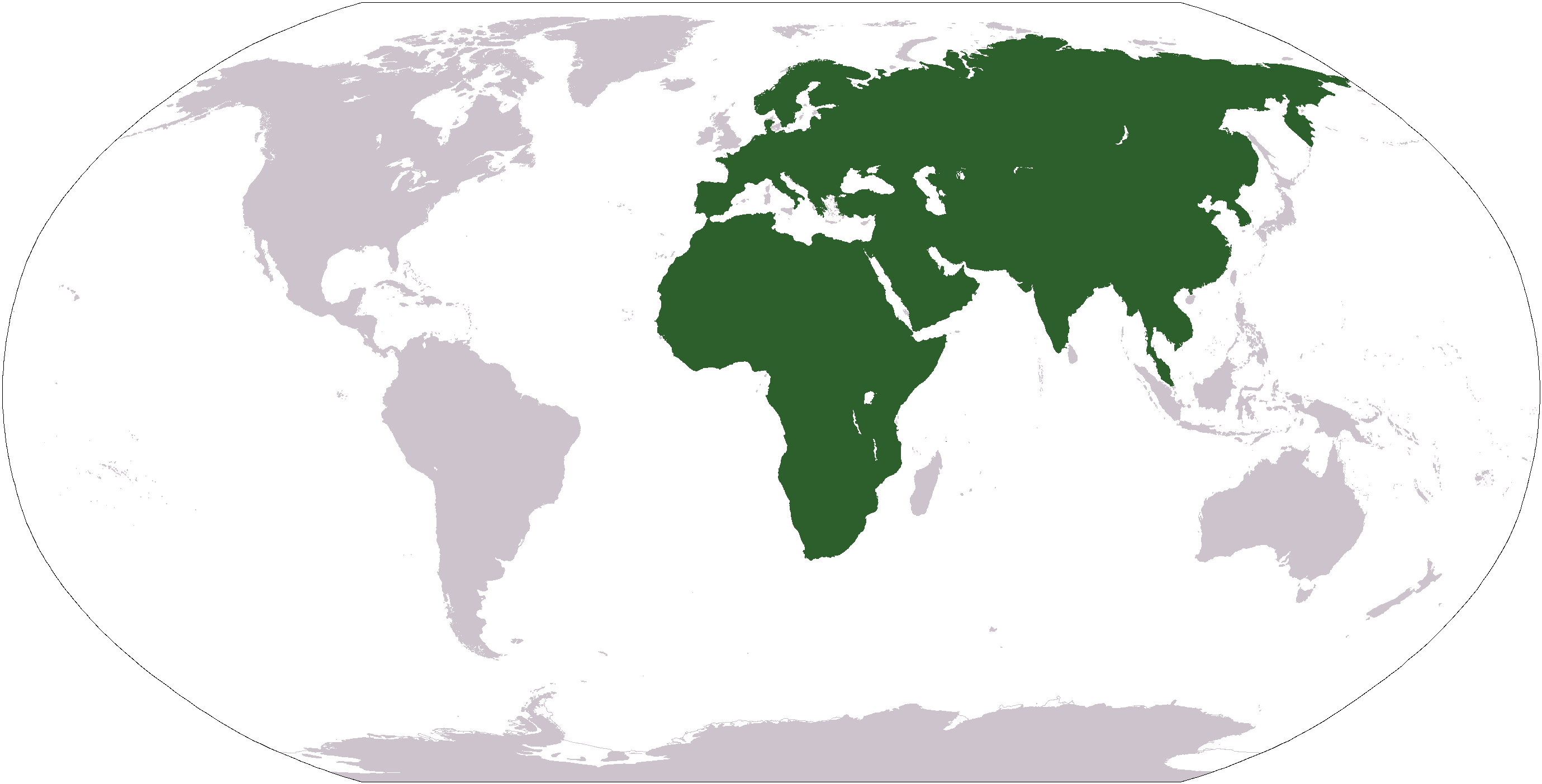 World map depicting Africa-Eurasia; map adapted from PDF world map at CIA World Fact Book